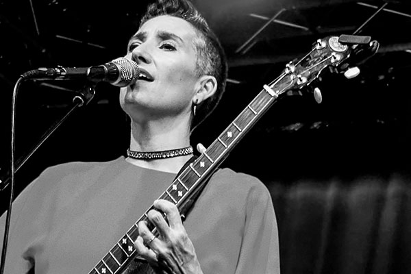 Trinelise Væring og Offpiste Gurus i Aarhus